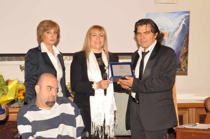 Entrega de placa MEA LUX al Fisico italiano Fulvio Frisone